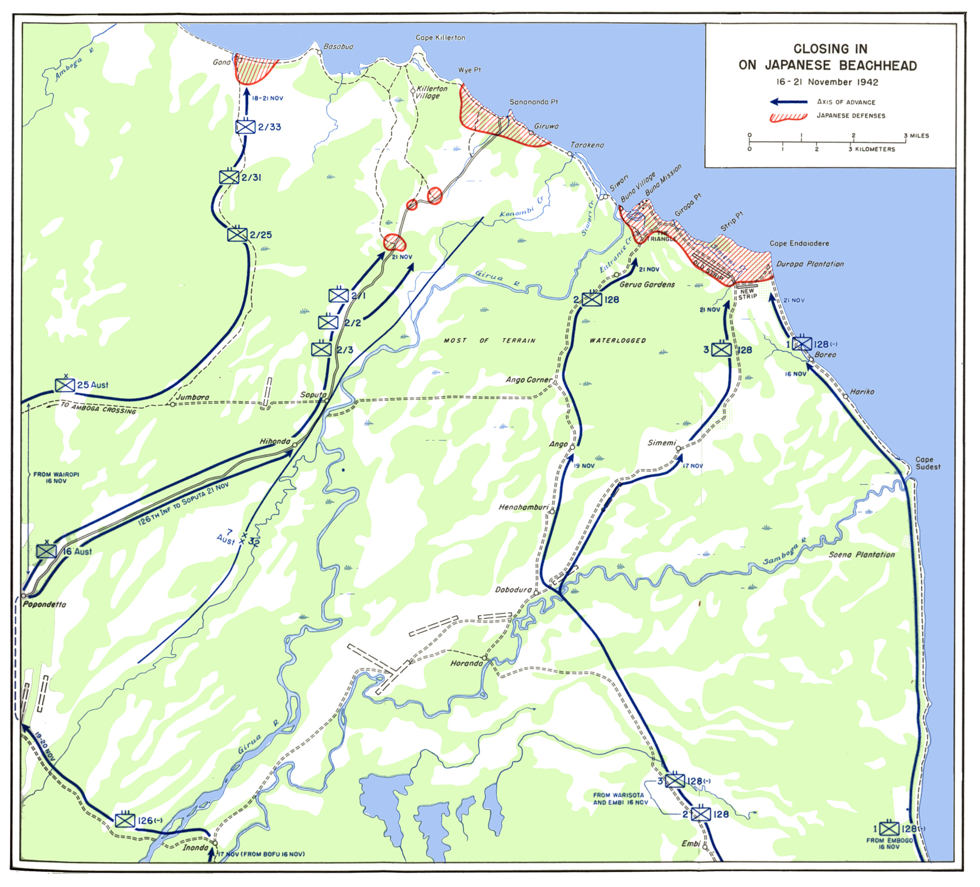 USA-P-Papua-VI Map VI milner Closing in on Japanese Beachhead 16-21 November 1942 .jpg